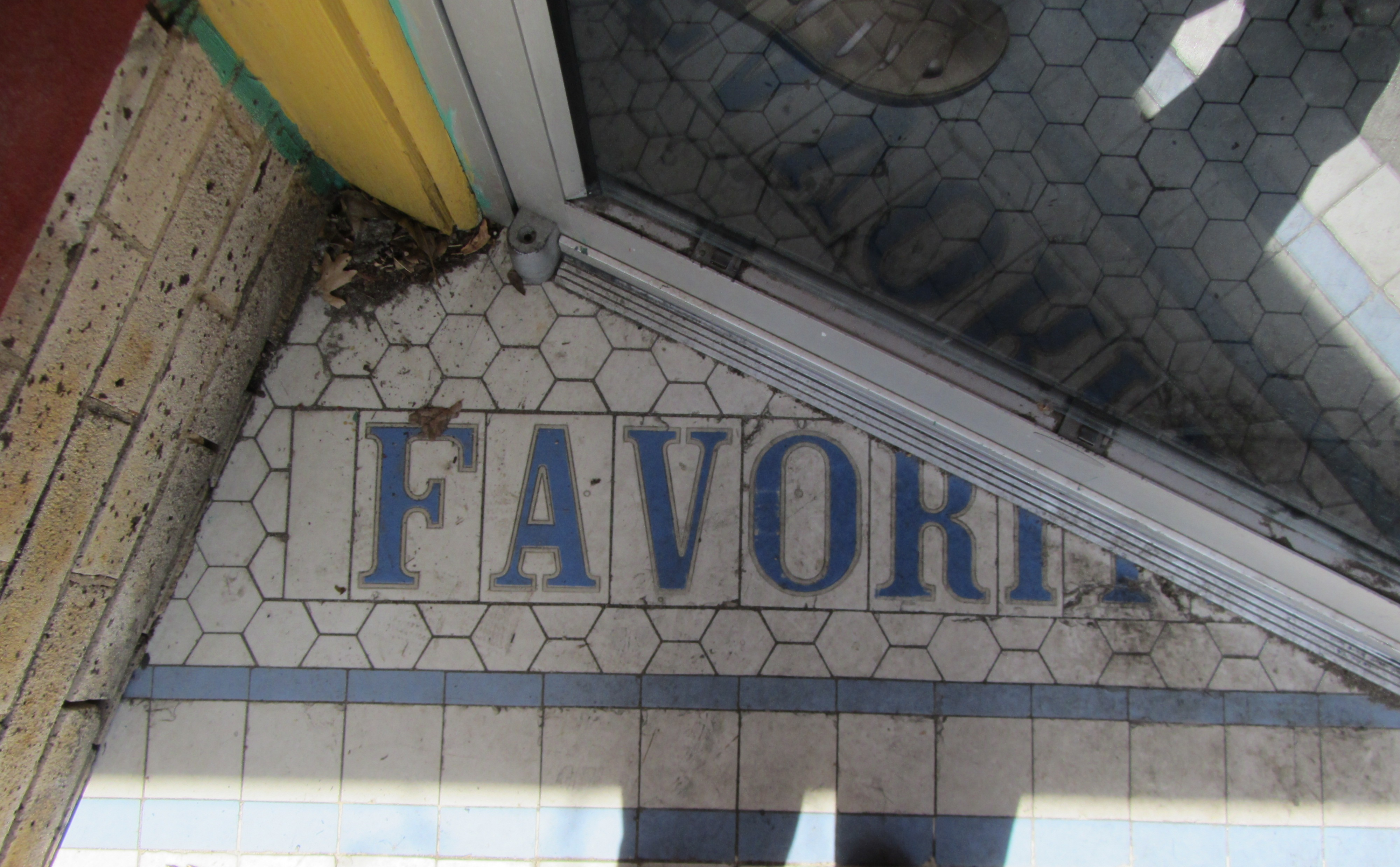 The entry floor of the Favorite Theatre, a former silent movie theatre in Omaha, Nebraska.